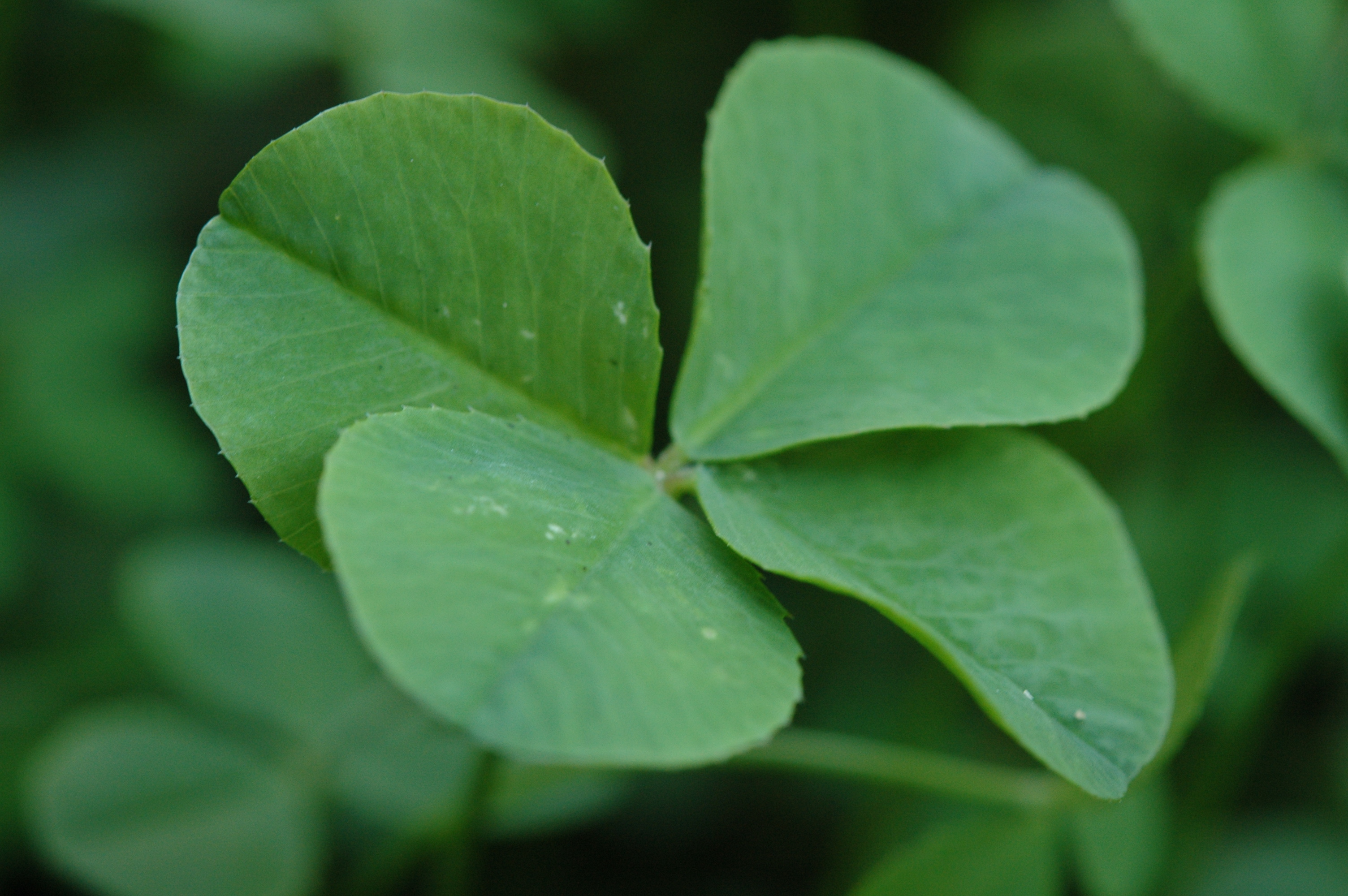 Four leaf clover